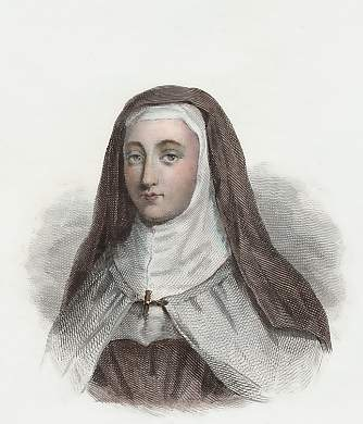 Louise de la Valliere as a nun